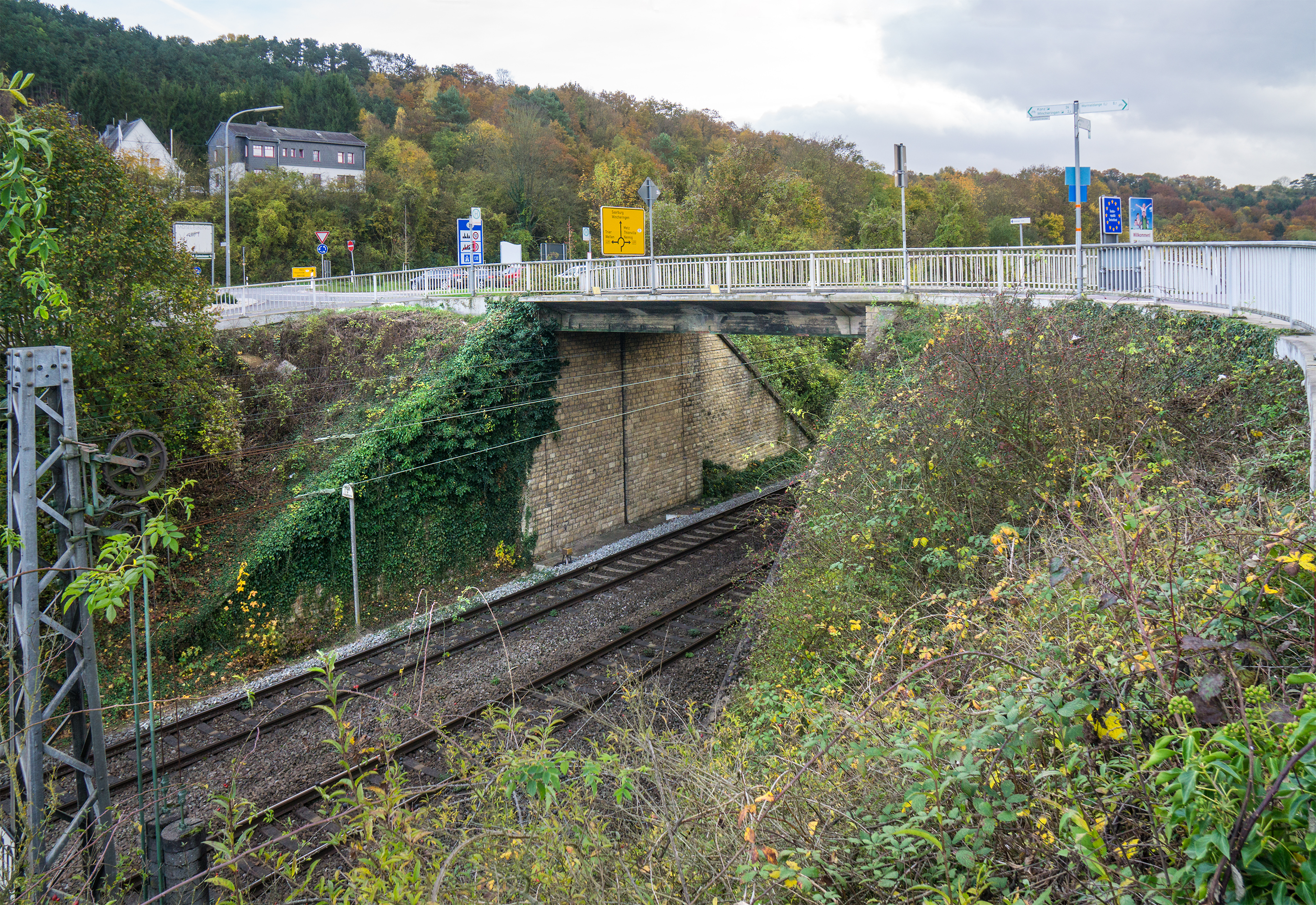 Bridge over the railway in Wincheringen